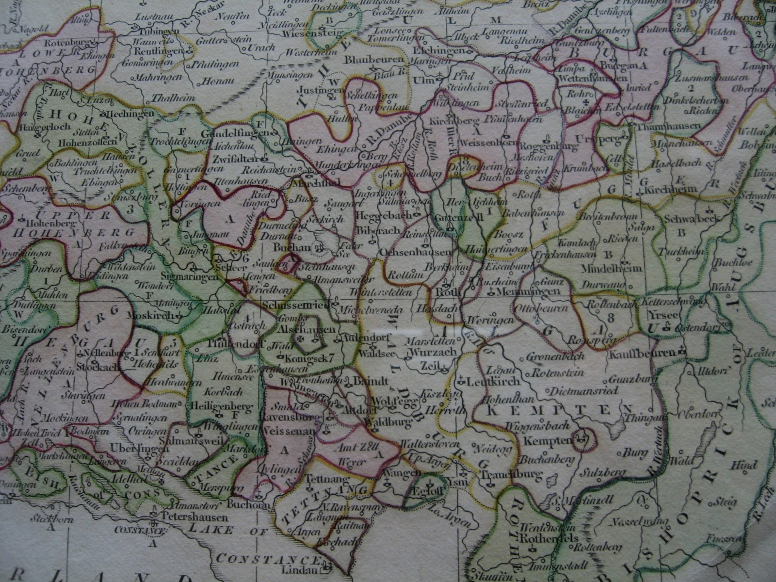 Swabia, particularly the southeast, was a tangle of small Imperial abbeys, Free Imperial cities and secular principalities, symbolised on this map by a black rectangle topped with a crozier, a cross and a vertical bar respectively. A combination of crozier and cross denotes a territory belonging to both an Imperial abbey and an Imperial city. (enclaves in pink ("A") belong to Anterior Austria (Vorderösterreich); with "F" to Fürstenberg; "B" to Bavaria; "W" to Wurtemberg; "2" to Augsburg; "3" to Buchau; "4" to Salmansweil; "5" to Petershausen; "6" to Waldberg; "7" to Rothenfels; "8" = to Fugger; "9" to Pappeheim; iron cross, to Teutonic Order). Cropped from a map of Swabia published by R. Wilkinson in 1802.